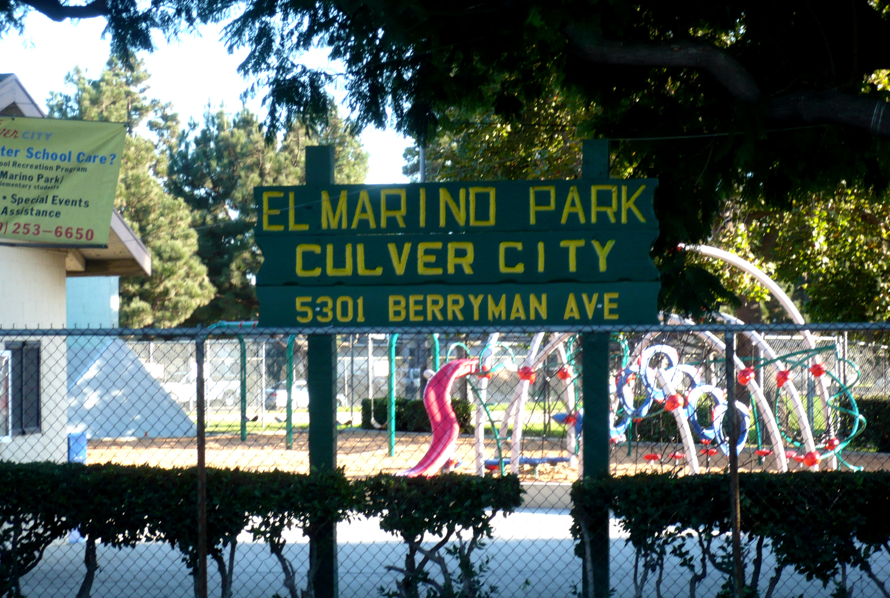 Picture of El Marino Park, Sunkist Park, Culver City, California.